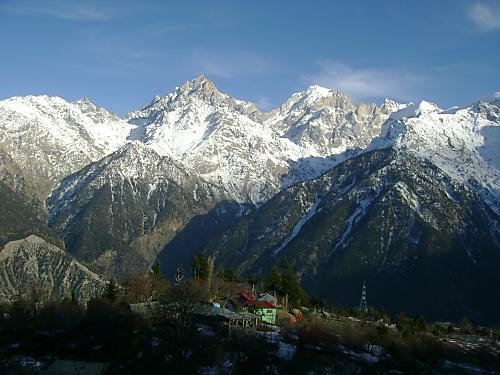 View of Kalpa, Himachal Pradesh, India